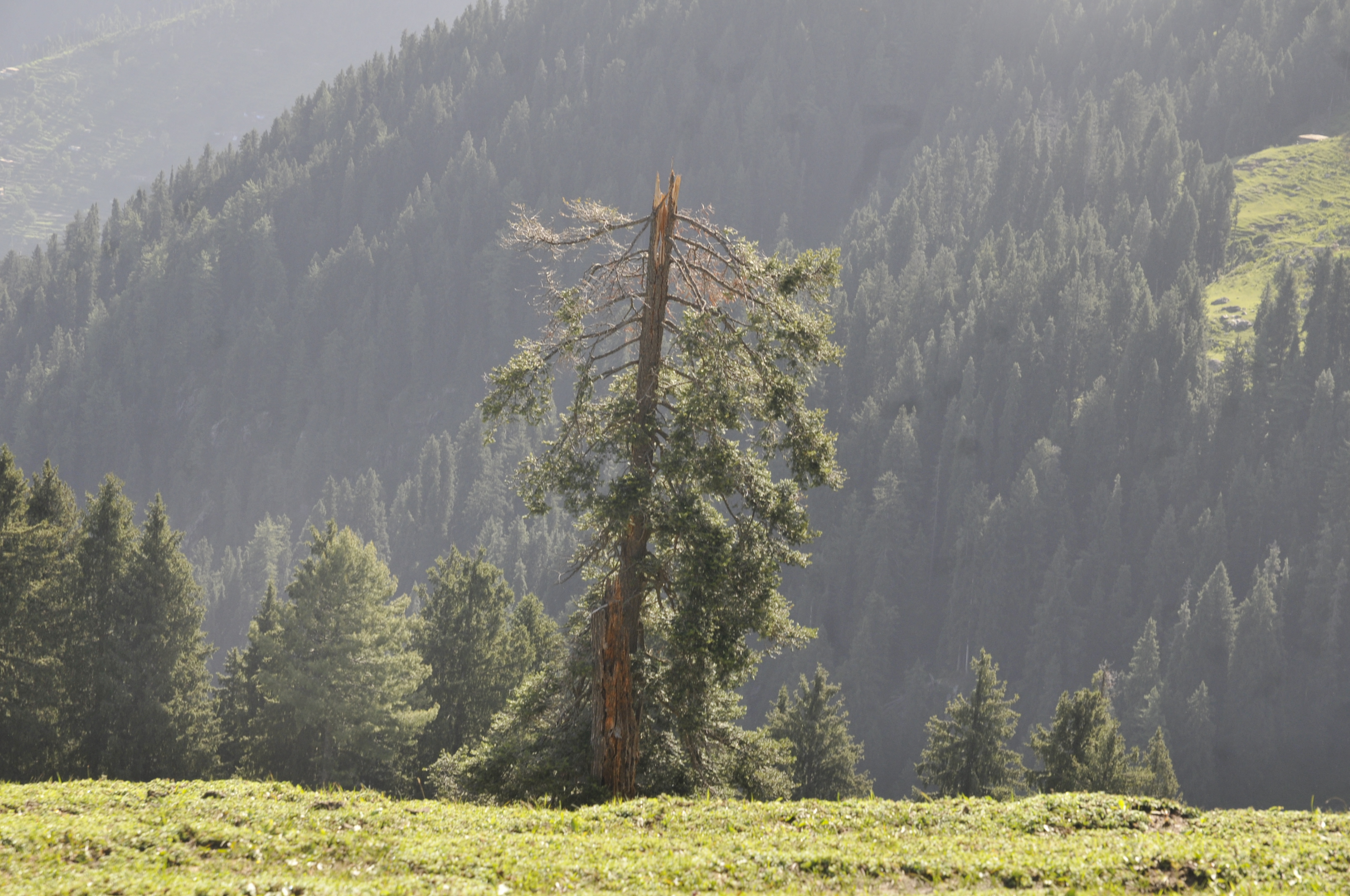 Swat valley A